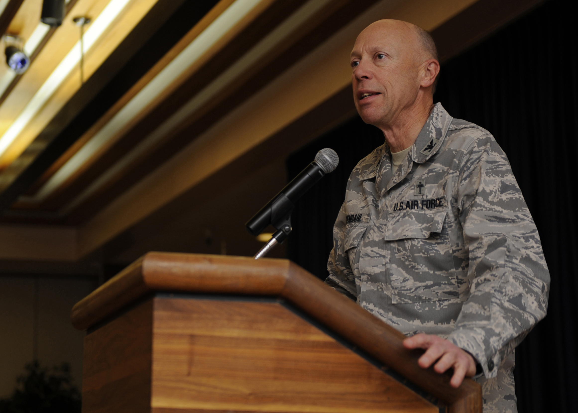 Chaplain Howard D. Stendahl, speaking at the Mountainhome Air Force Base National Prayer Breakfast.